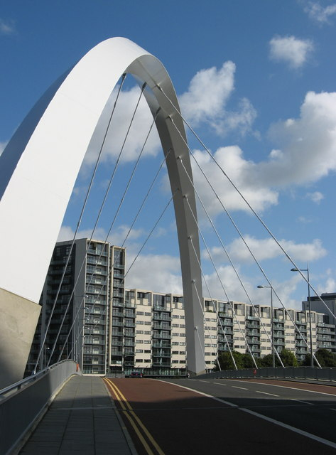 The Clyde Arc Opened in 2002 this beautiful bridge has a total span of 169m.